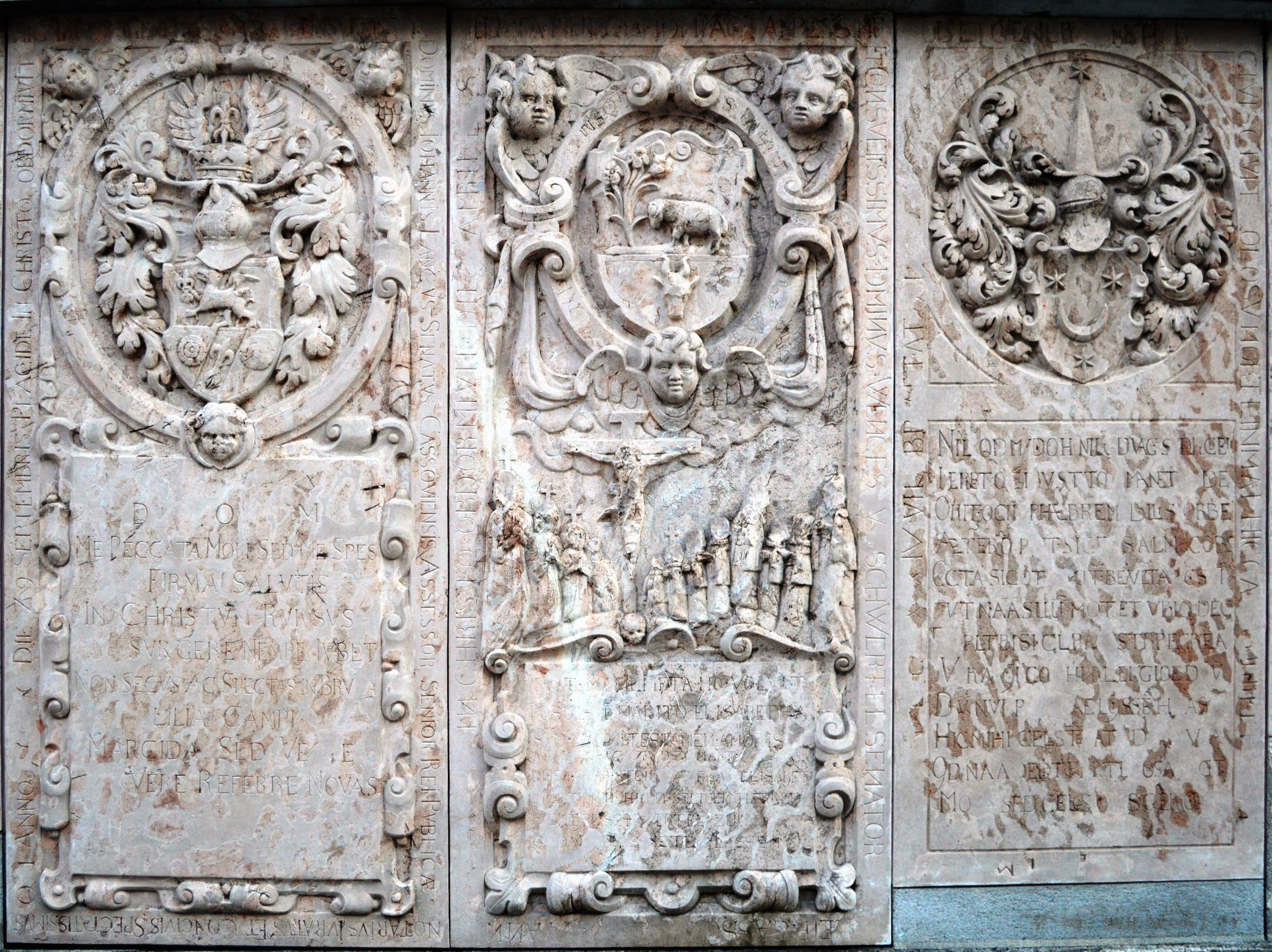 Košice is the biggest city in eastern Slovakia and in 2013 was the European Capital of Culture together with Marseille, France. It is situated on the river Hornád at the eastern reaches of the Slovak Ore Mountains, near the border with Hungary. Košice is the second largest city in Slovakia after the capital Bratislava. The first evidence of inhabitance can be traced back to the end of the Paleolithic era. The first written reference to the Hungarian town of Košice (as the royal village – Villa Cassa) comes from 1230. After the Mongol invasion in 1241, King Béla IV of Hungary invited German colonists to fill the gaps in population. The city has a well-preserved historical centre, which is the largest among Slovak towns. There are many heritage protected buildings in Gothic, Renaissance, Baroque, and Art Nouveau styles with Slovakia's largest church: the St Elisabeth Cathedral. The city is well known as the first settlement in Europe to be granted its own coat-of-arms .The Scotch Mist Gallery contains many photographs of historic buildings, monuments and memorials of Poland and beyond.